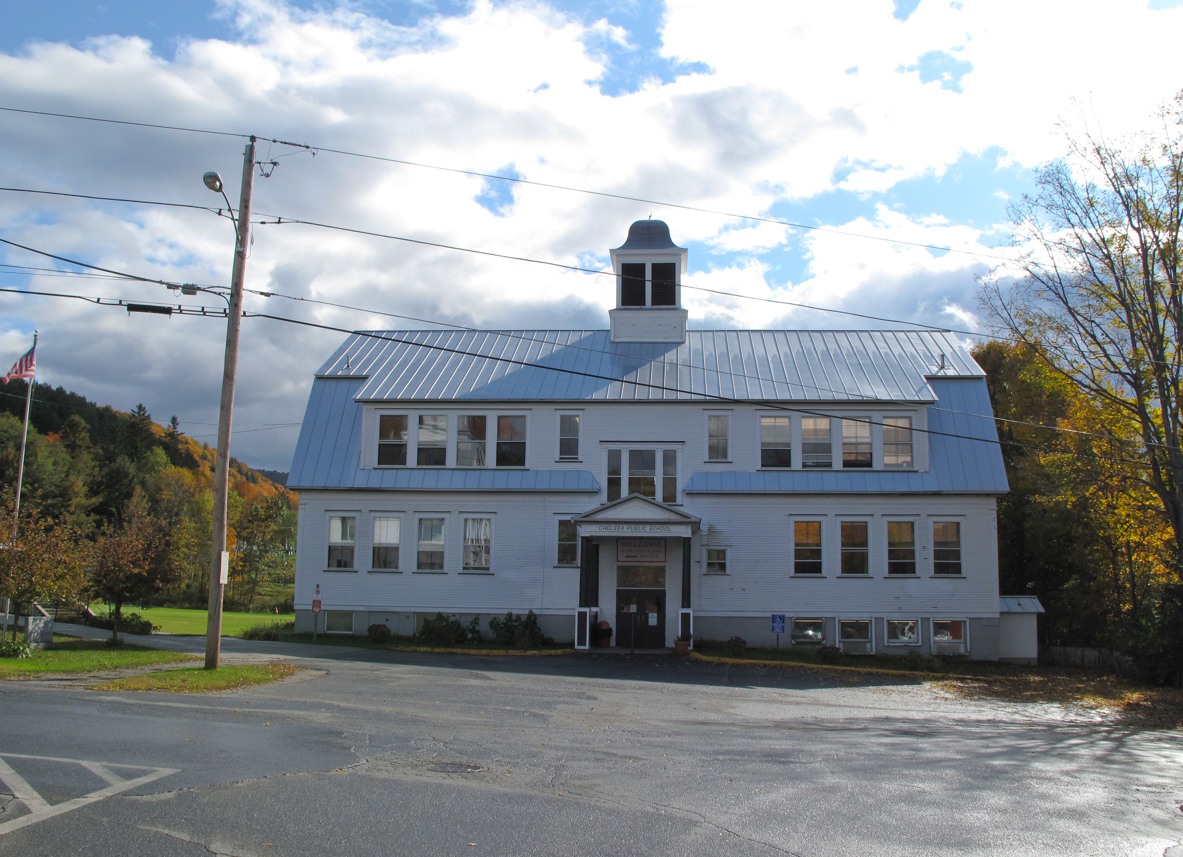 School building in Chelsea, Vermont, USA.